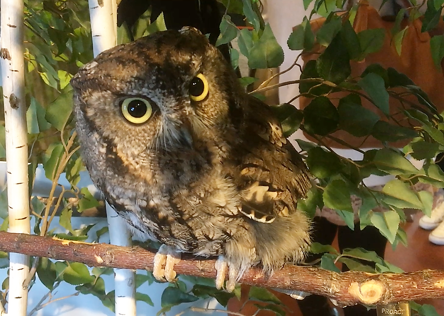 Megascops kennicottii / Otus kennicottii / Western Screech Owl